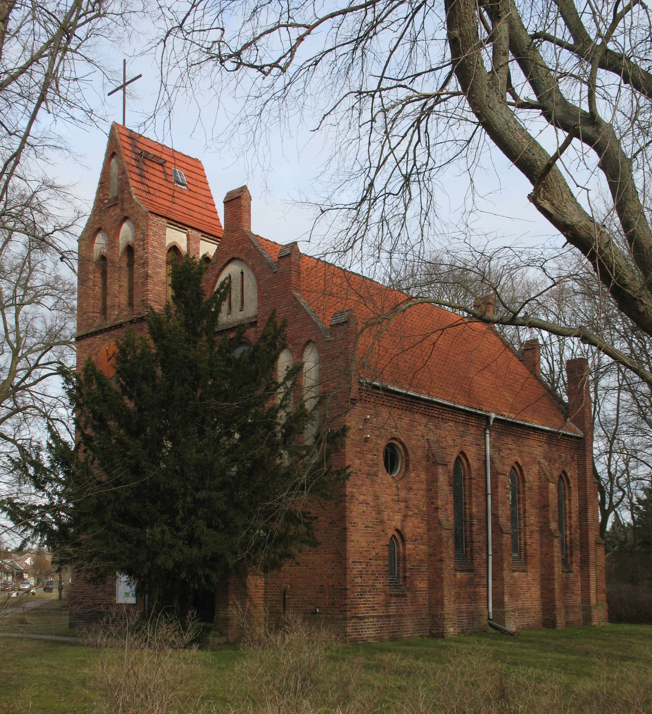 Church in Zehdenick-Kappe in Brandenburg, Germany